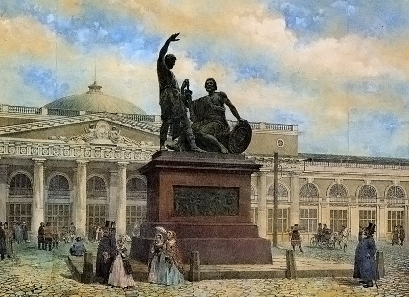 Upper Trade rows in 1818s. A Daziaro print after P. Benoist